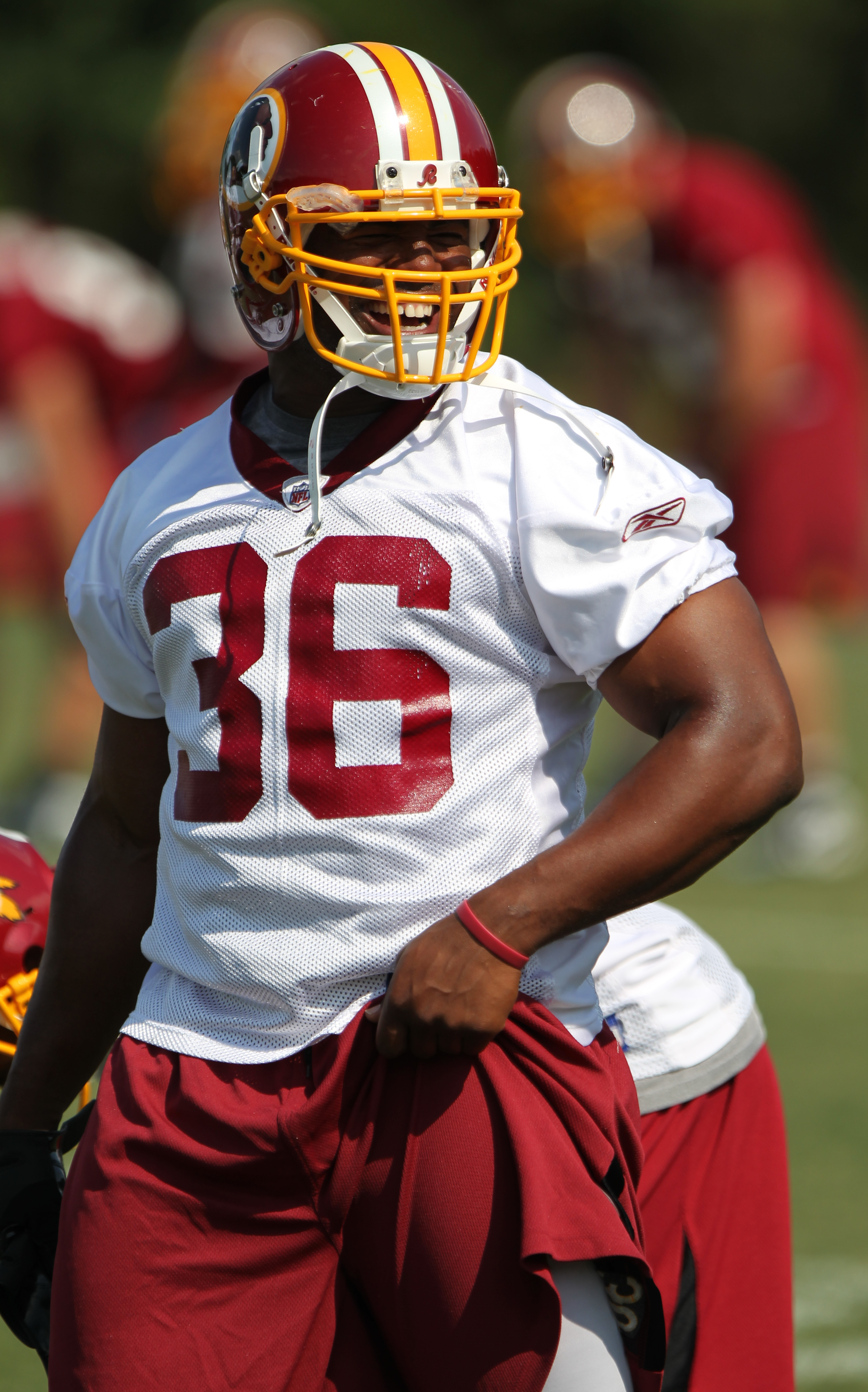 Washington Redskins Training Camp August 4, 2011